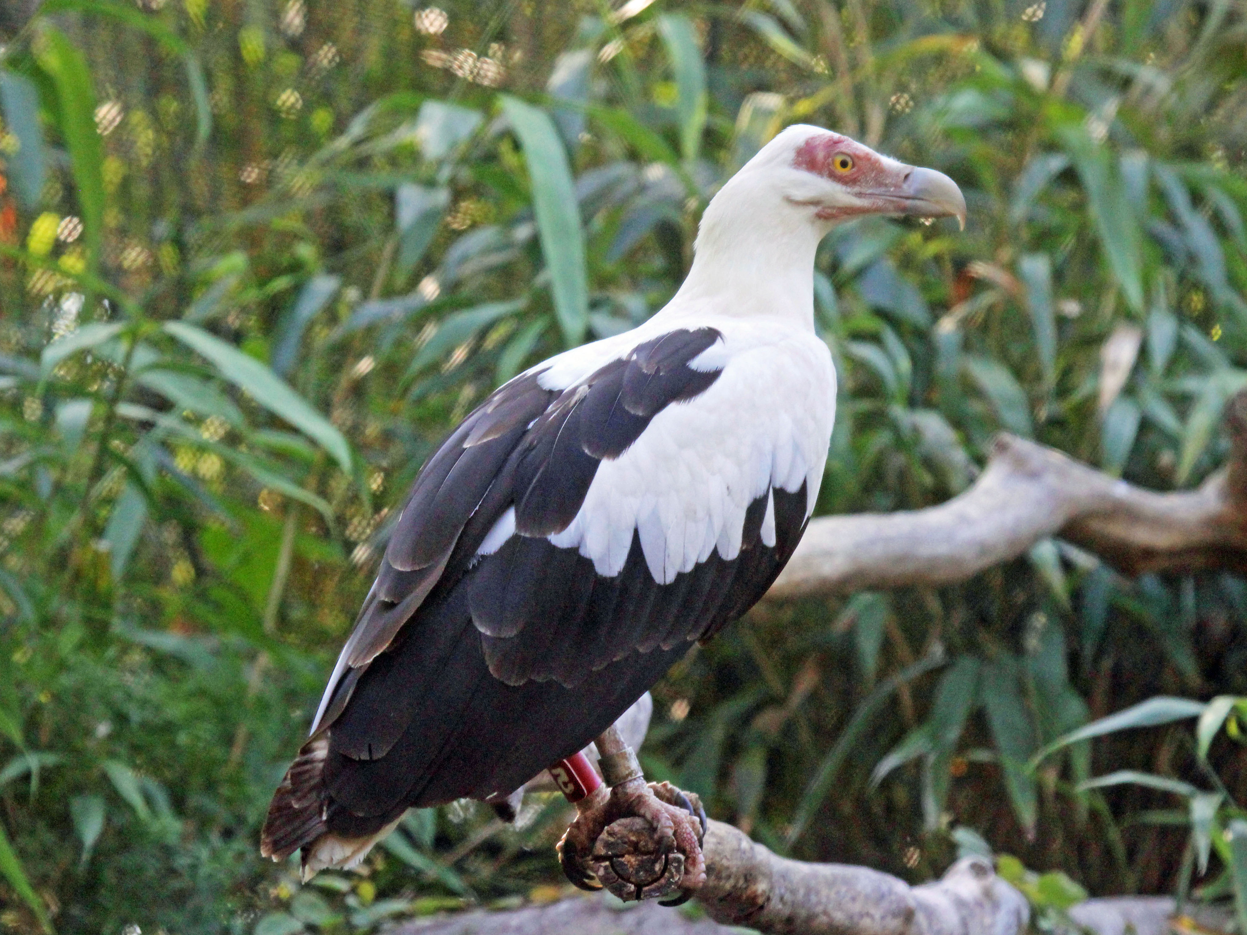 Palm-nut Vulture (Gypohierax angolensis) - Jacksonville Zoo, Florida